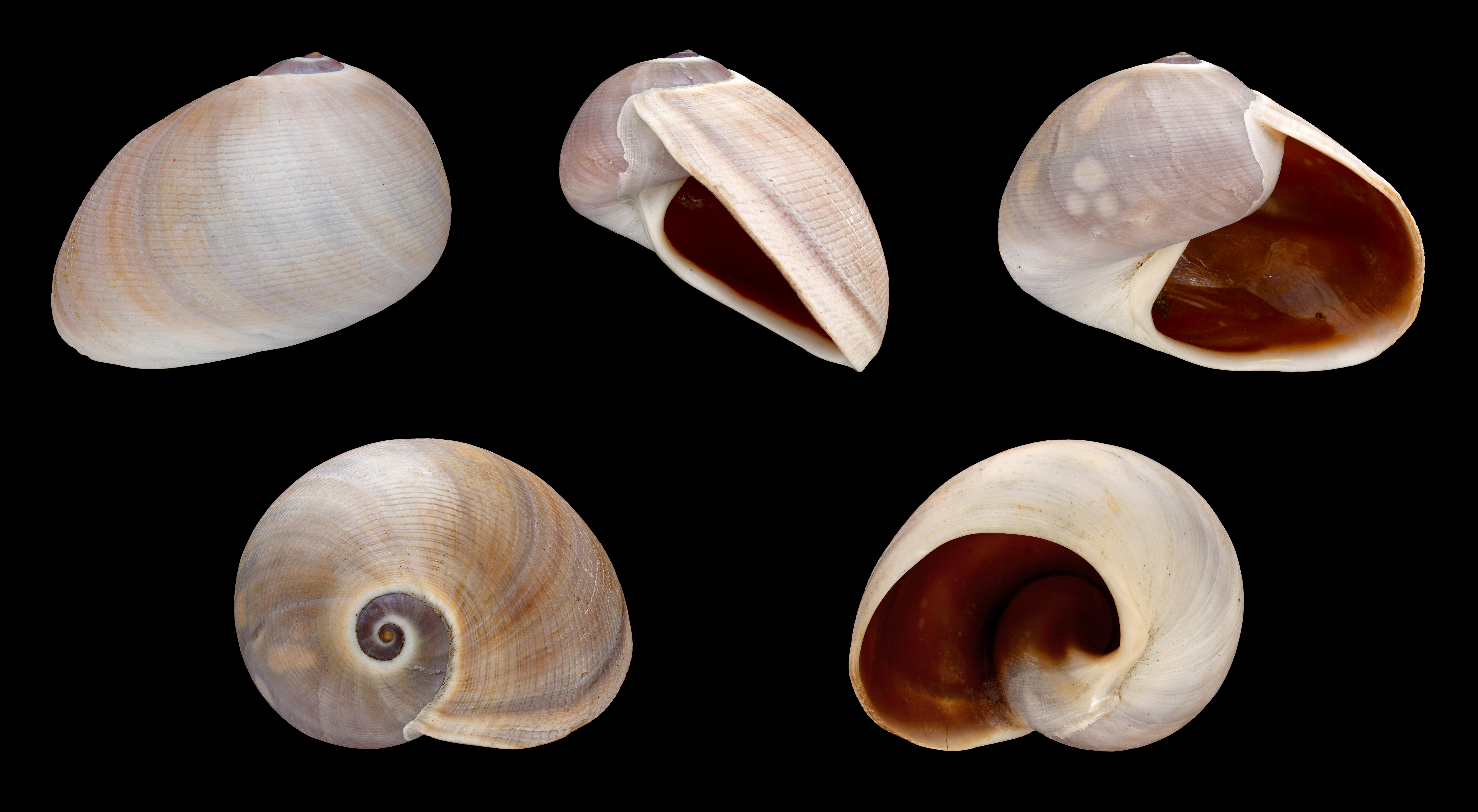 Boat Ear Moon Snail; Diameter 5.2 cm; Originating from the Pacific coast of Peru; Shell of own collection, therefore not geocoded.